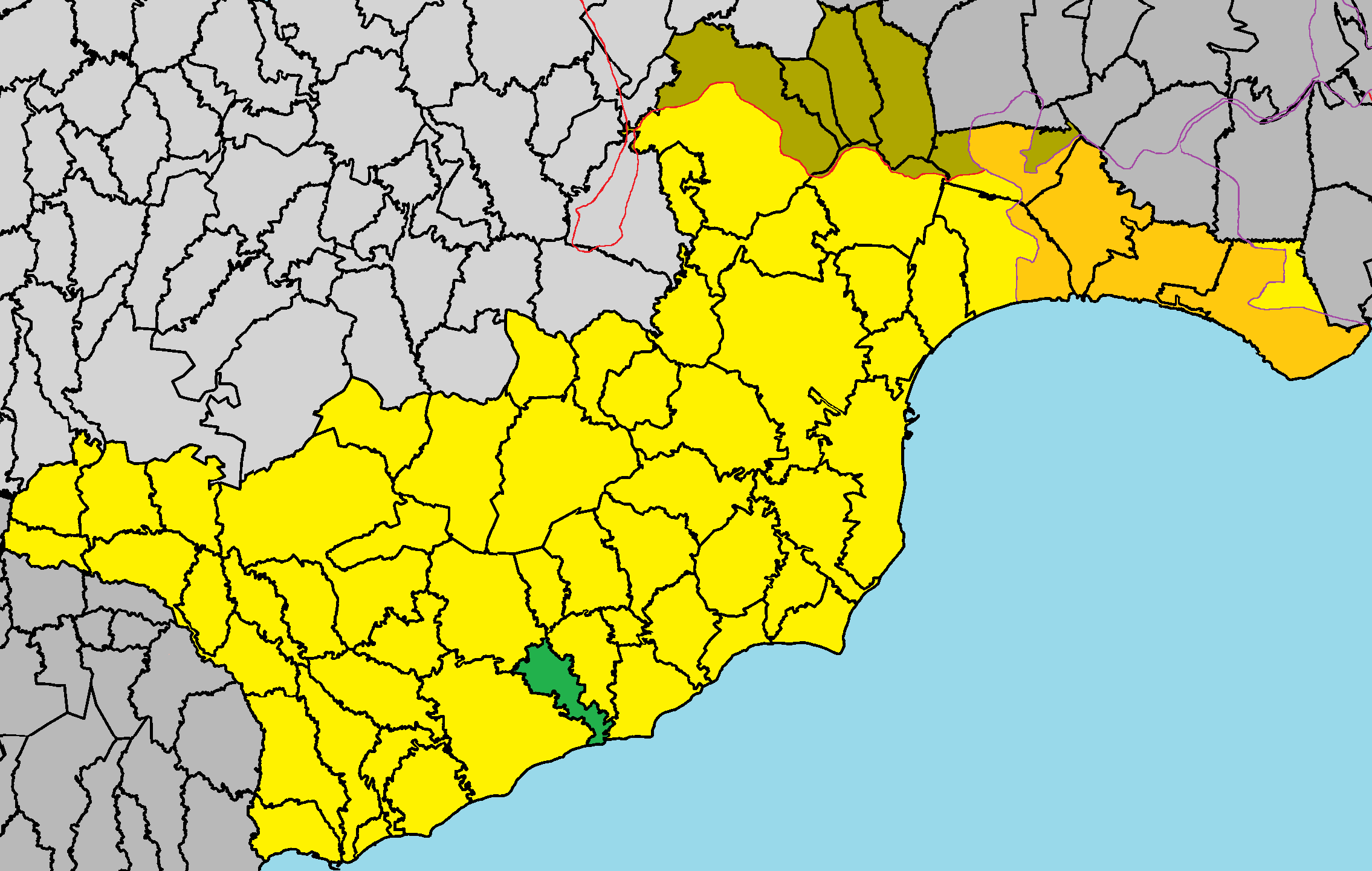 Alaminos in Larnaca District.